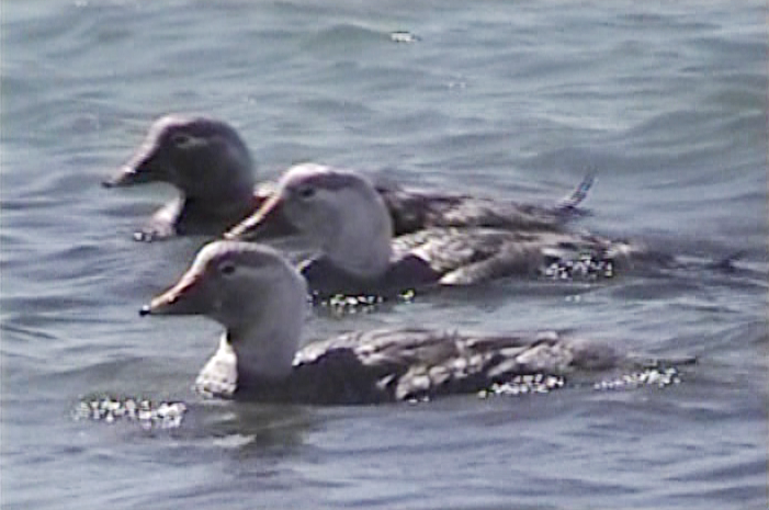 White-headed Flightless Steamer Duck (Tachyeres leucocephalus).